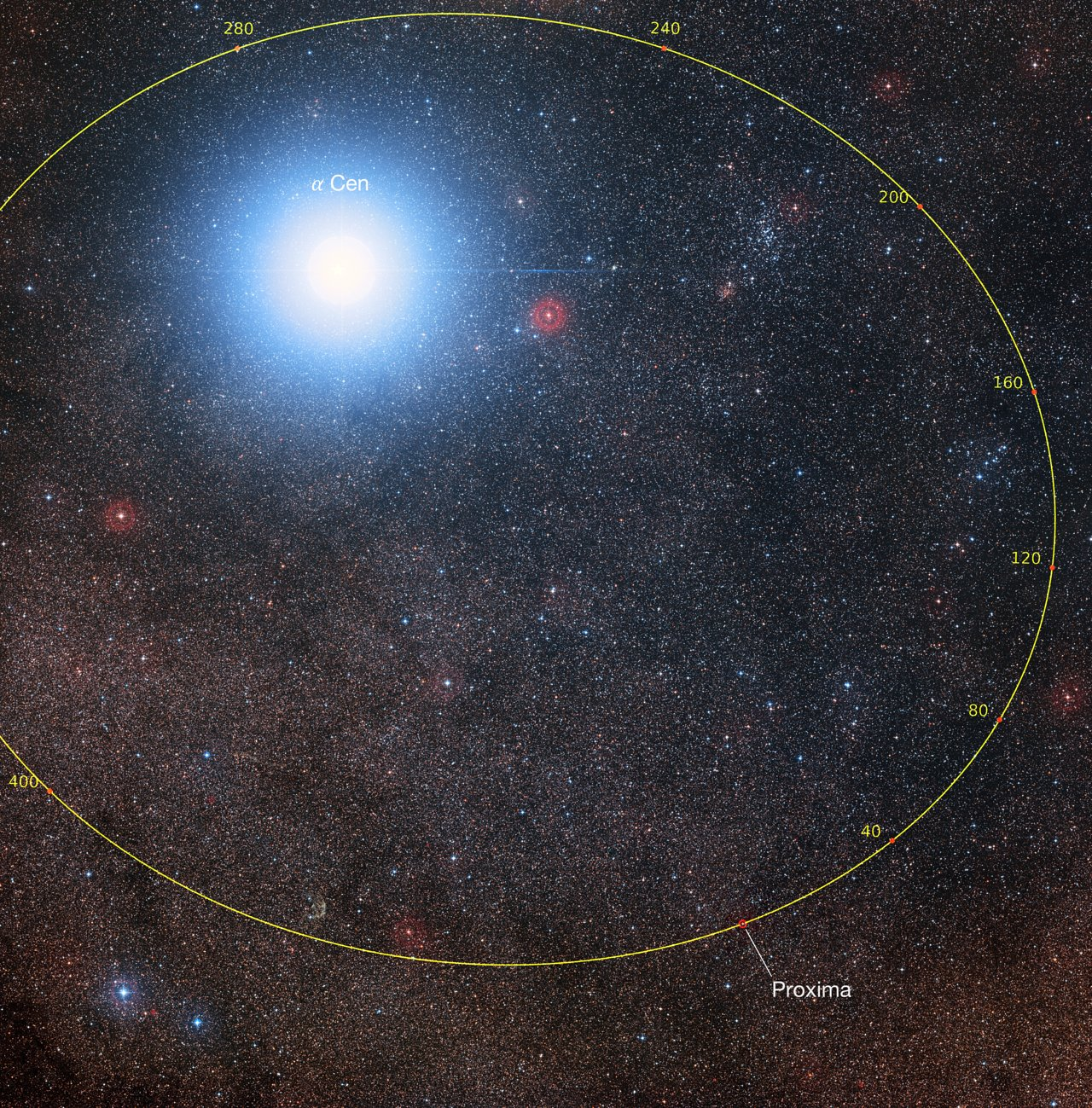 Orbital plot of Proxima Centauri showing its position with respect to Alpha Centauri over the coming millenia (graduations are in thousands of years). The large number of background stars is due to the fact that Proxima Cen is located very close to the plane of the Milky Way.